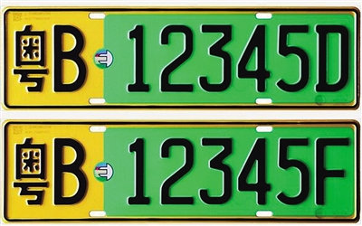 Large New Energy Vehicle License plate of China, issues since December 1, 2016.